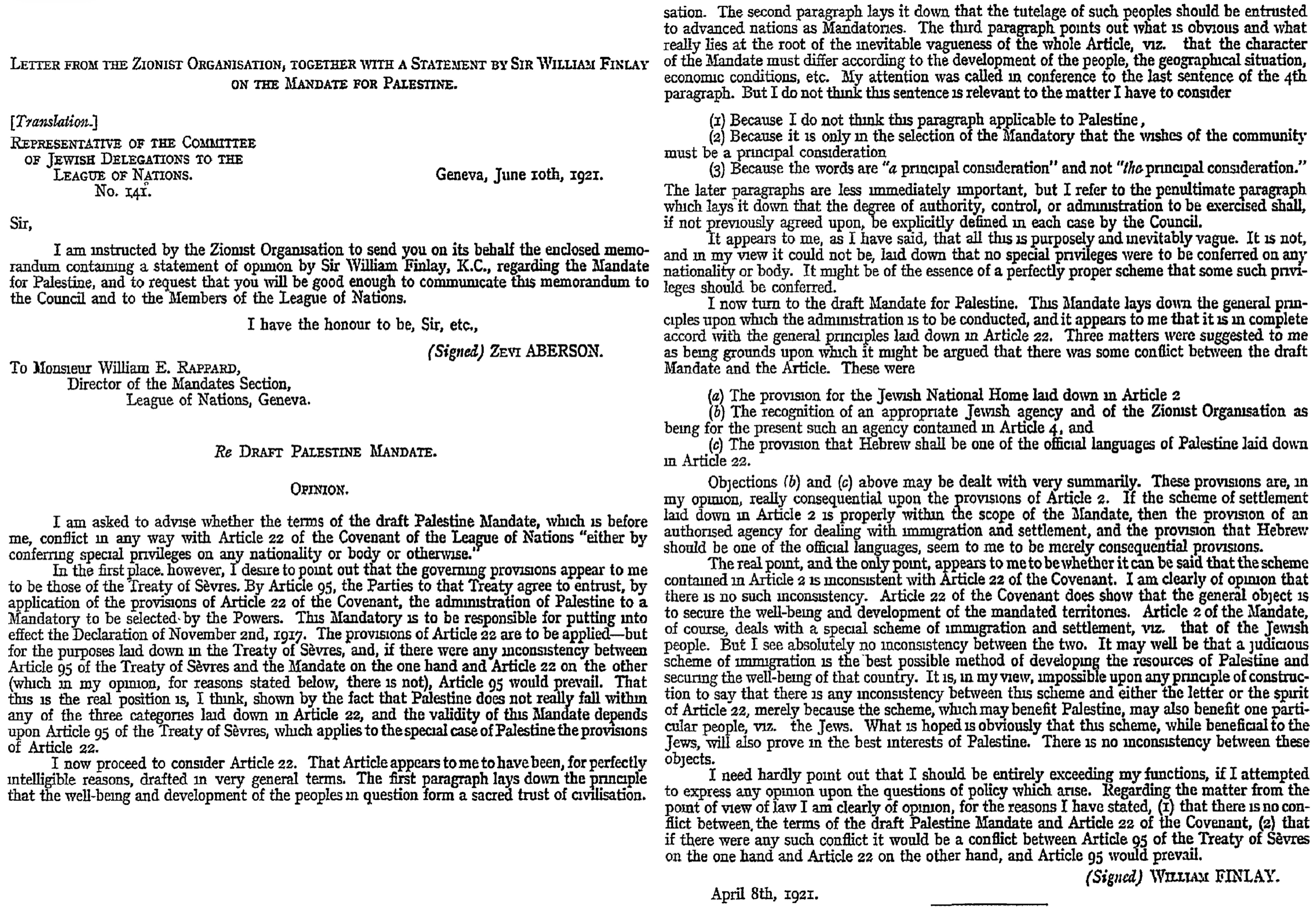 Zionist Organization legal argument regarding the Mandate for Palestine and Article 22 of the Covenant of the League of Nations